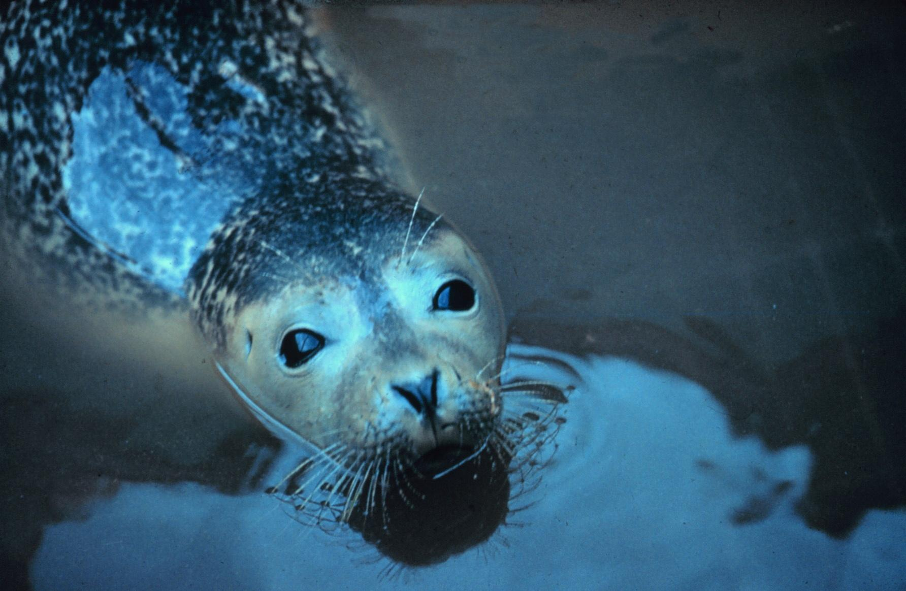 A seal Un phoque Ein Seehund